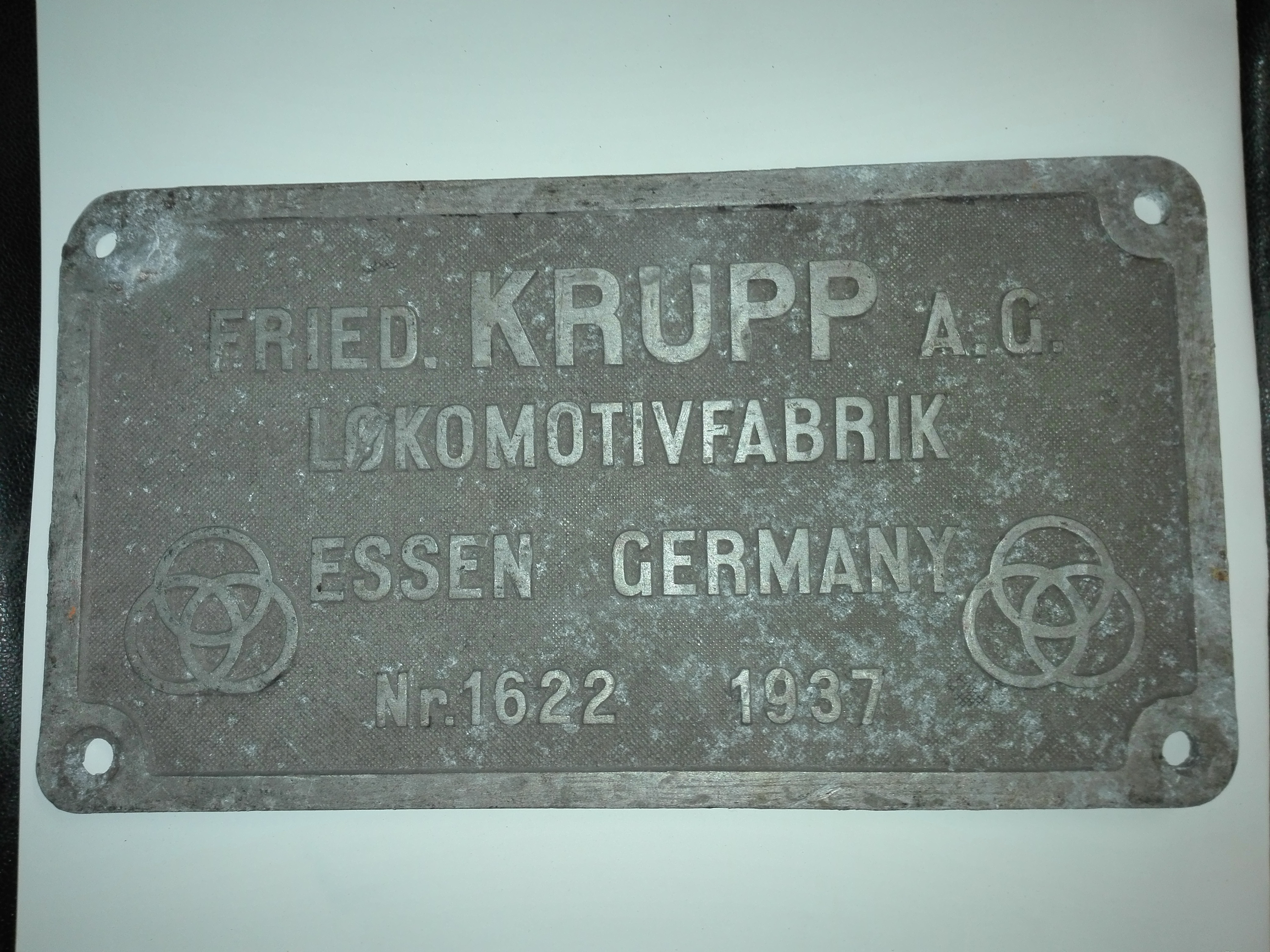 19D 2510 (Builders Plate)